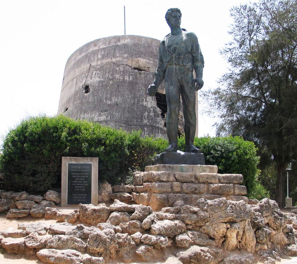 Kibbutz Yad Mordechai, Mordechai Anilevich memorial.